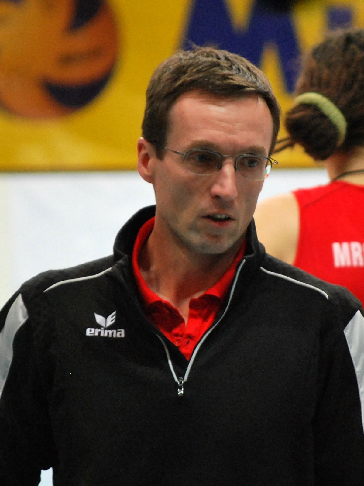 Rafał Błaszczyk, polish volleyball coach